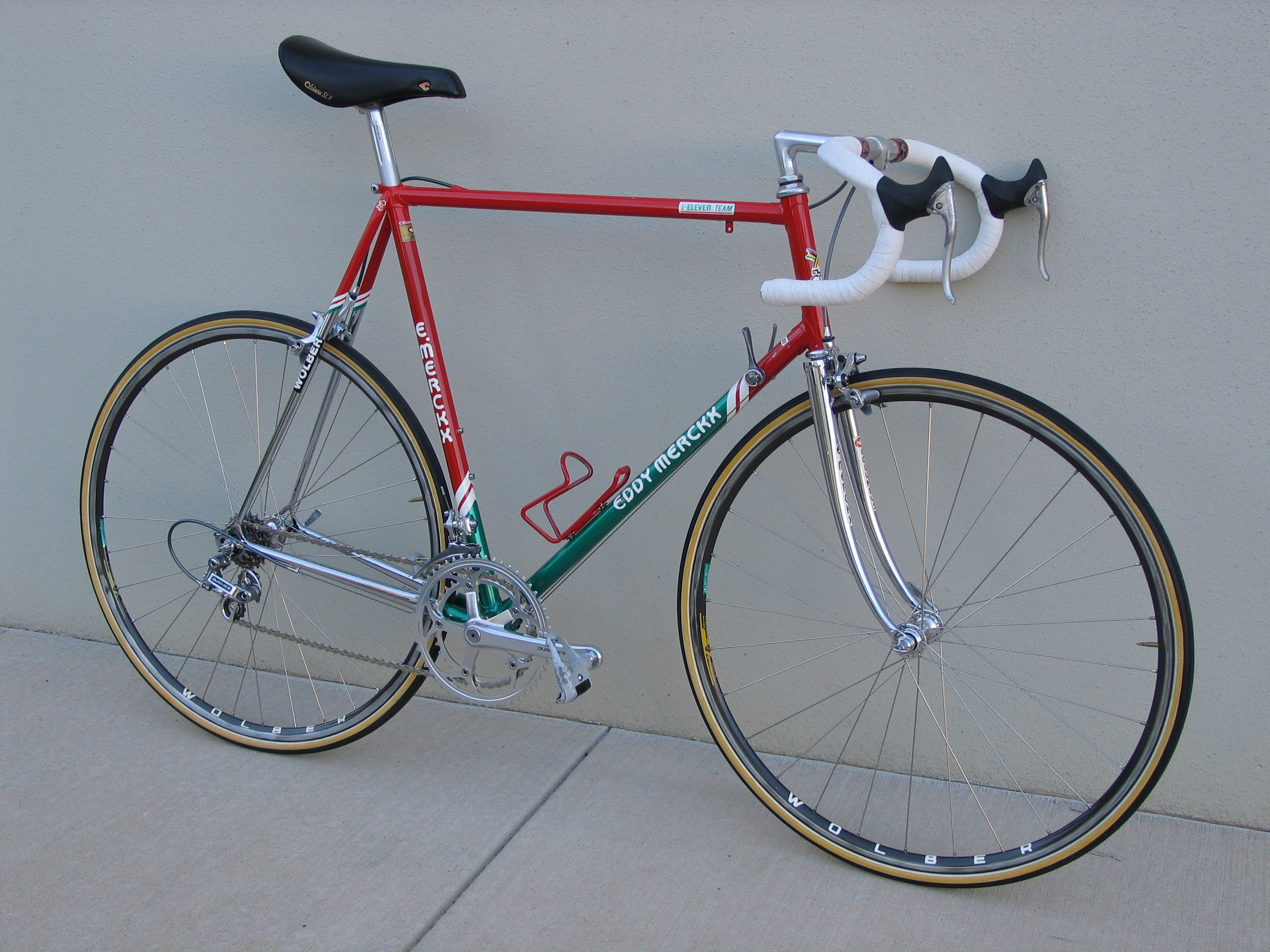 1989 7-Eleven TEAM Eddy Merckx, 61cm (serial# A9816)